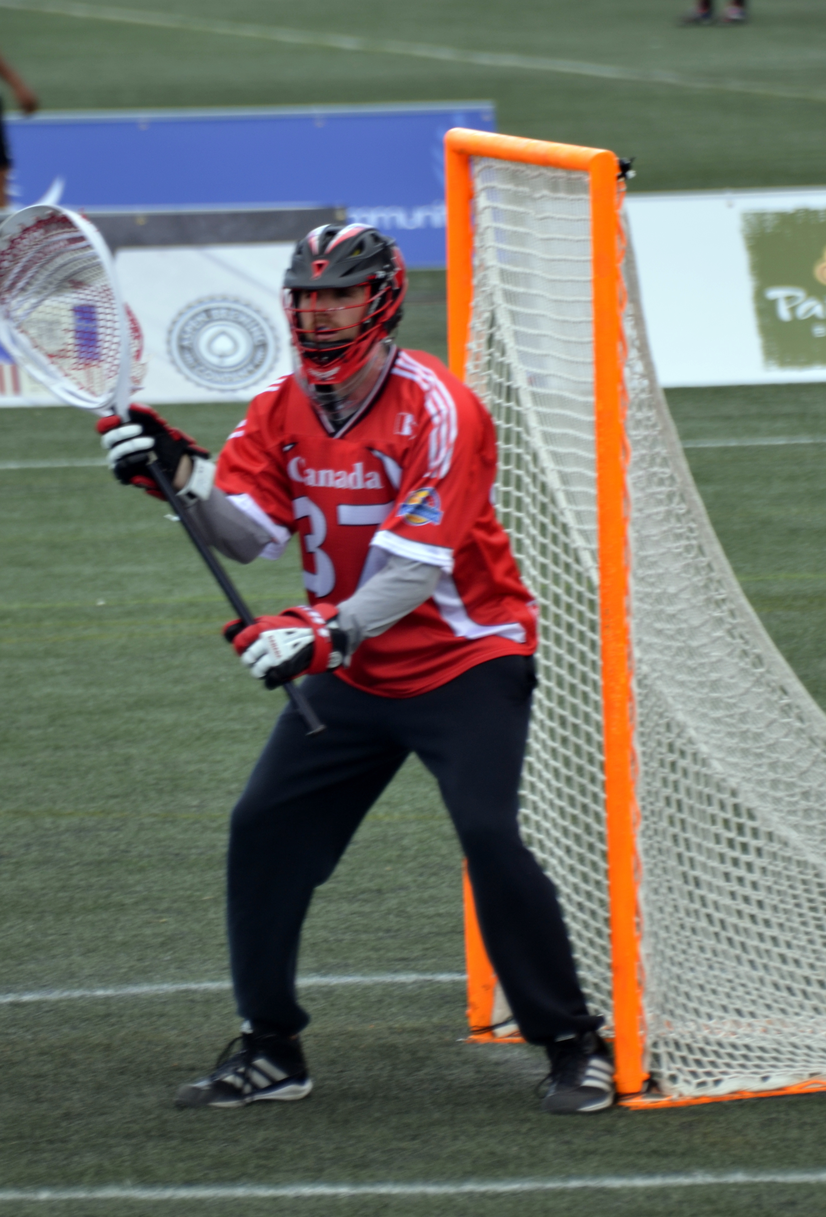 2014 World Championships